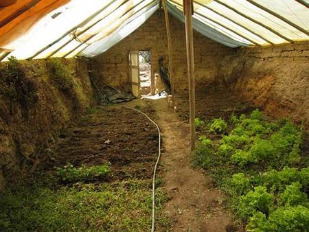 walipini_2